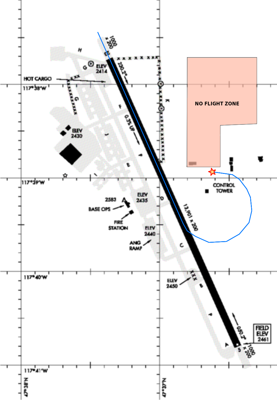 File showing flight path overview of 1994 Fairchild Air Force Base B-52 crash as well as the orange no-flight zone.